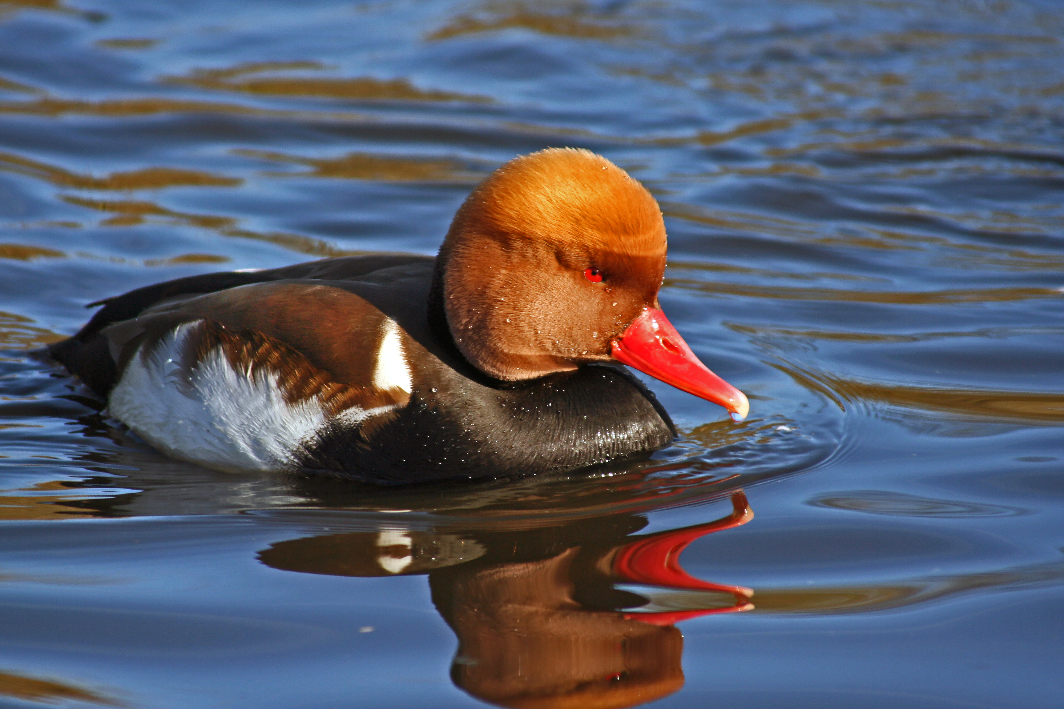 Red-crested pochard, Netta rufina, at Slimbridge Wildfowl and Wetlands Centre, Gloucestershire, England.